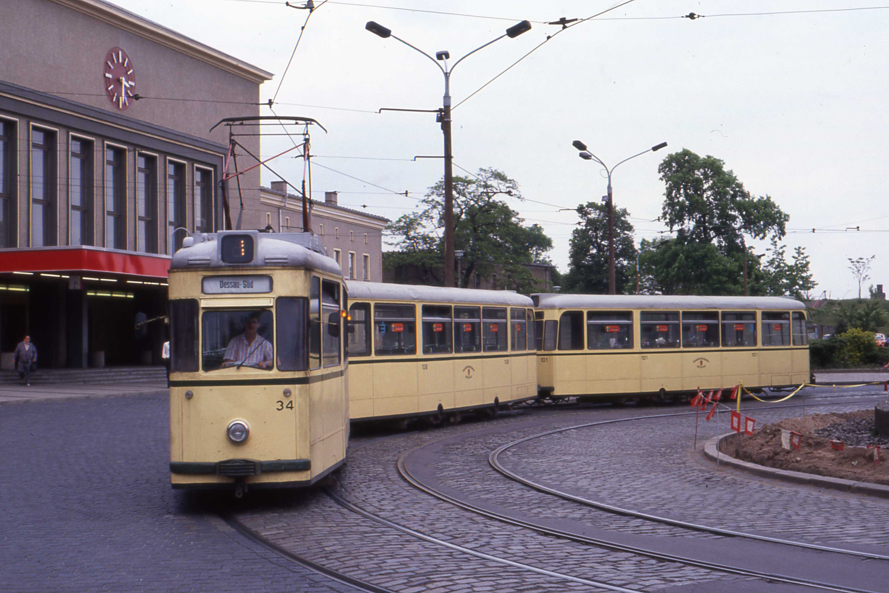 Turning Circle outside the Hauptbahnhof in Dessau. Motor car no 34 tows two trailer 108 and 101 on route 1 to Dessau Sued. 34 was a Gotha T2-62 built 1967, acqured ub 1988 ex Schwerin 34 but loaned to magdeburg 1967-9. The trailers were B2-62 models, 108 was scrapped also in 1993, but 101 passed to Magdeburg as a works car 519. See note about the building works barrier to the right from Herr G. The route indicator is very rudimentary dot matrix equipment.